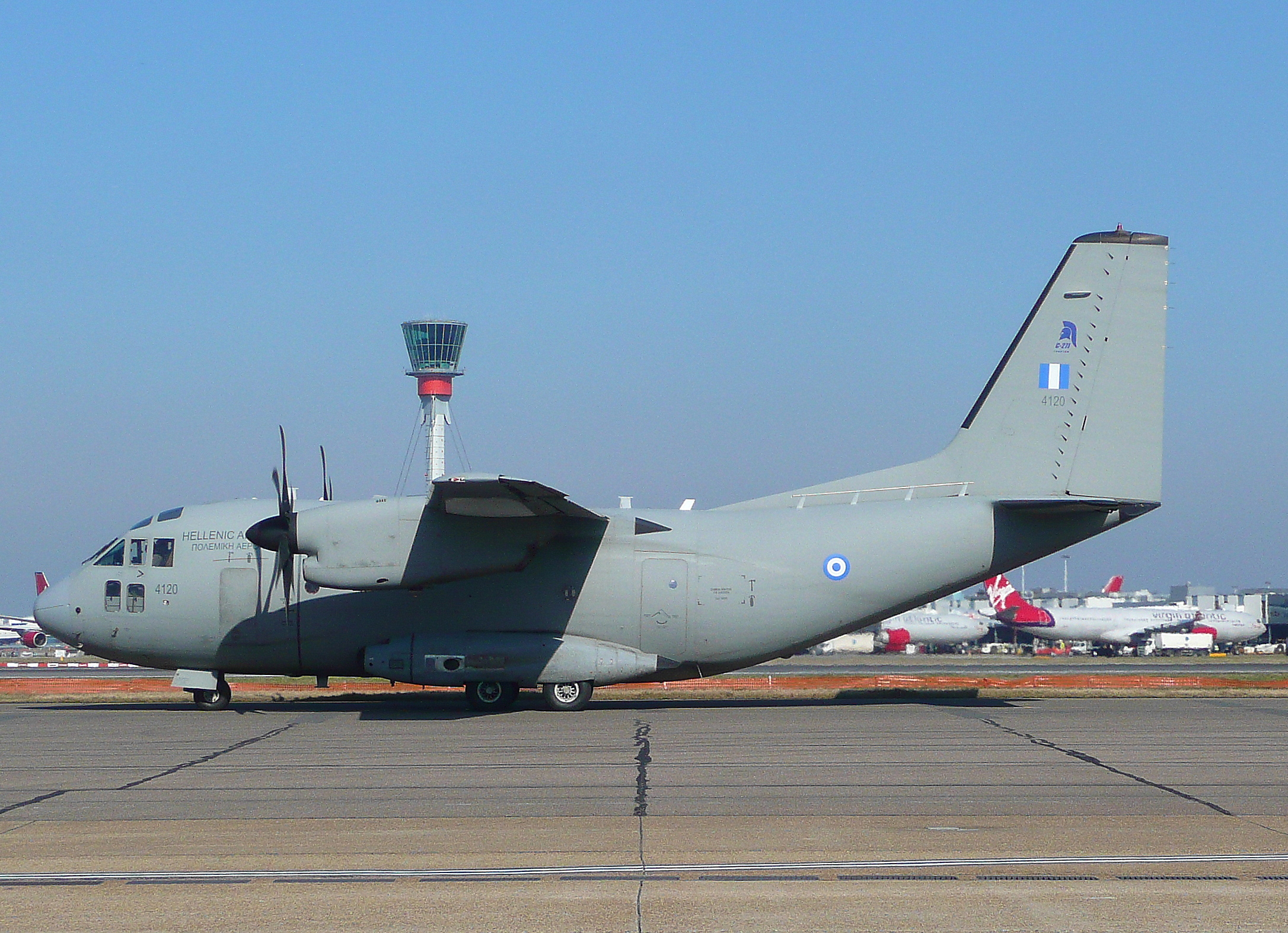 4120 C27J Greek Air Force passing the cargo stands on the outer taxiway.